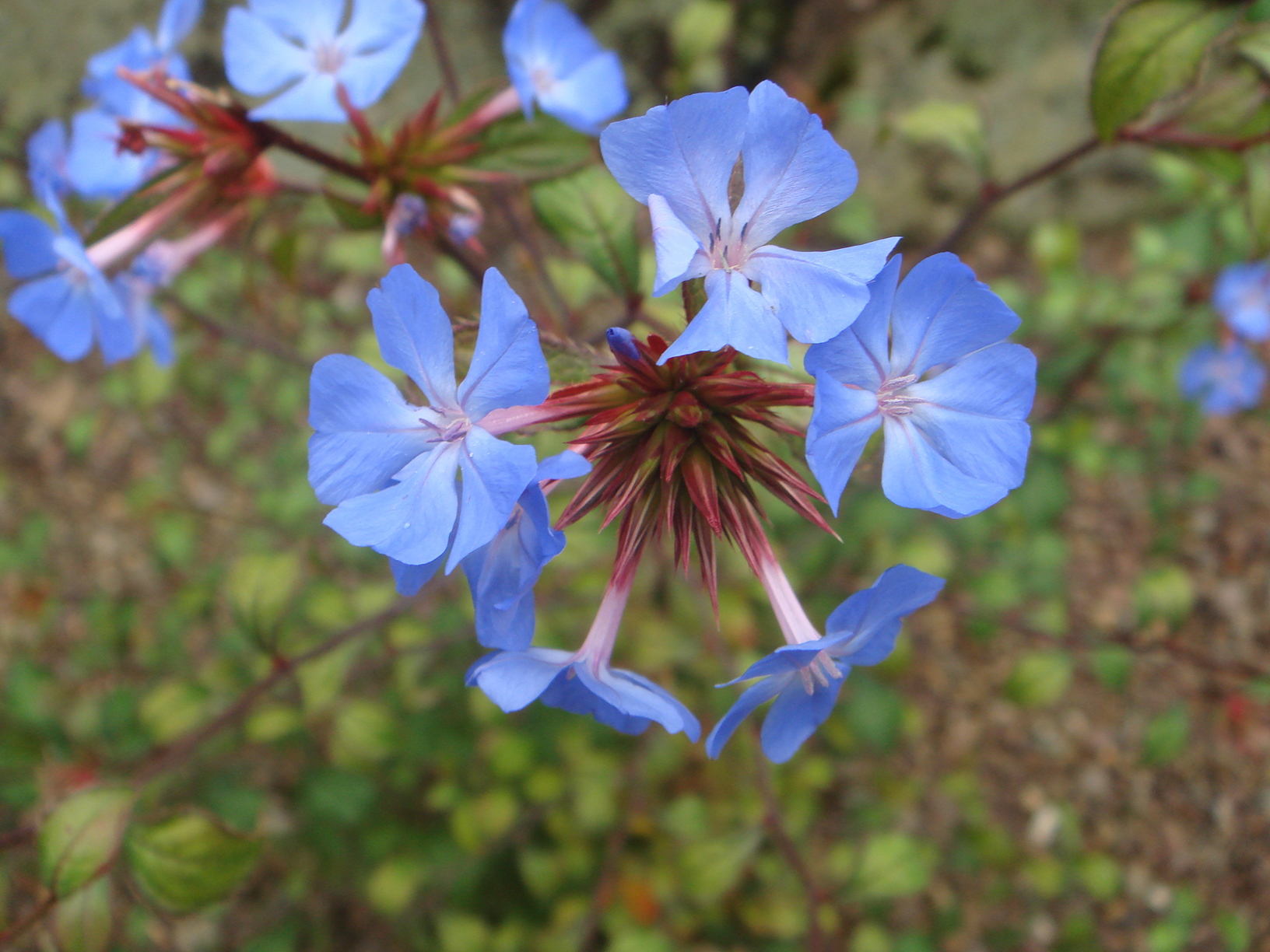 (Ceratostigma minus) , Royal Botanic Garden Edinburgh, Scotland Royal Botanic Garden Edinburgh: Accession number 1992.1160 C